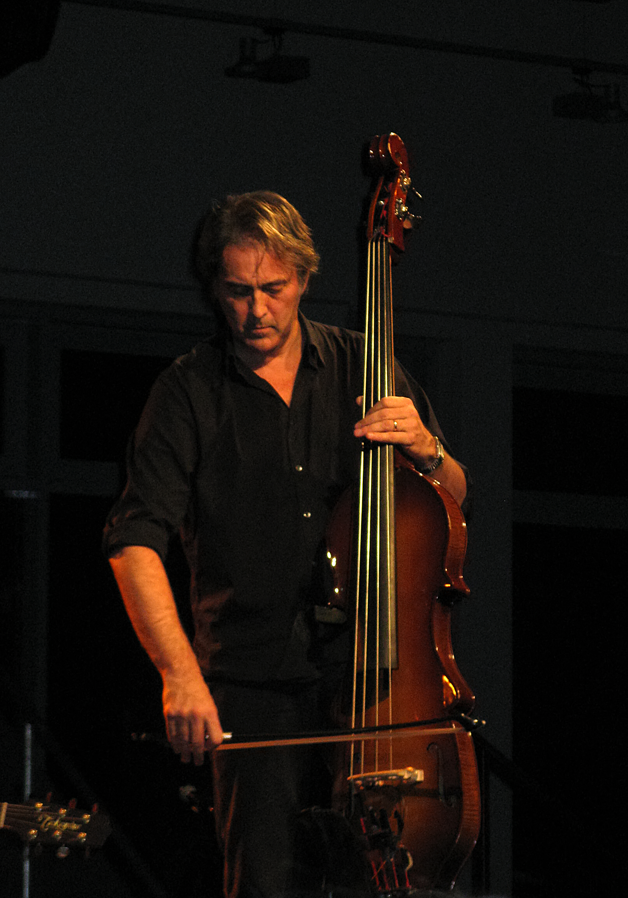 Trevor Hutchinson at a Lúnasa gig in Nuremberg, Germany on December 7th 2008.